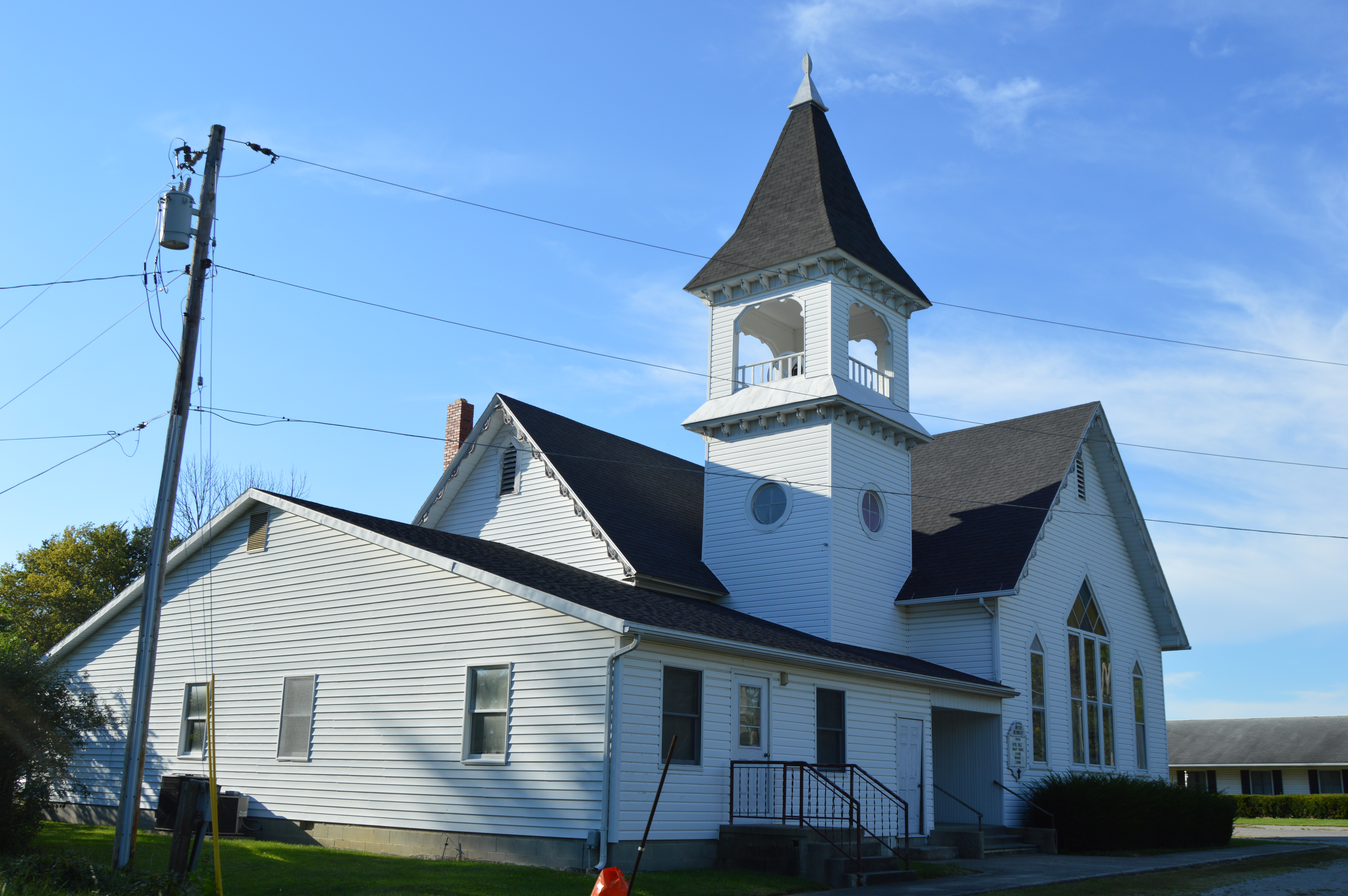 Front and southern end of the New Dover United Methodist Church, located at the junction of Church and School Streets in New Dover, Ohio, United States.